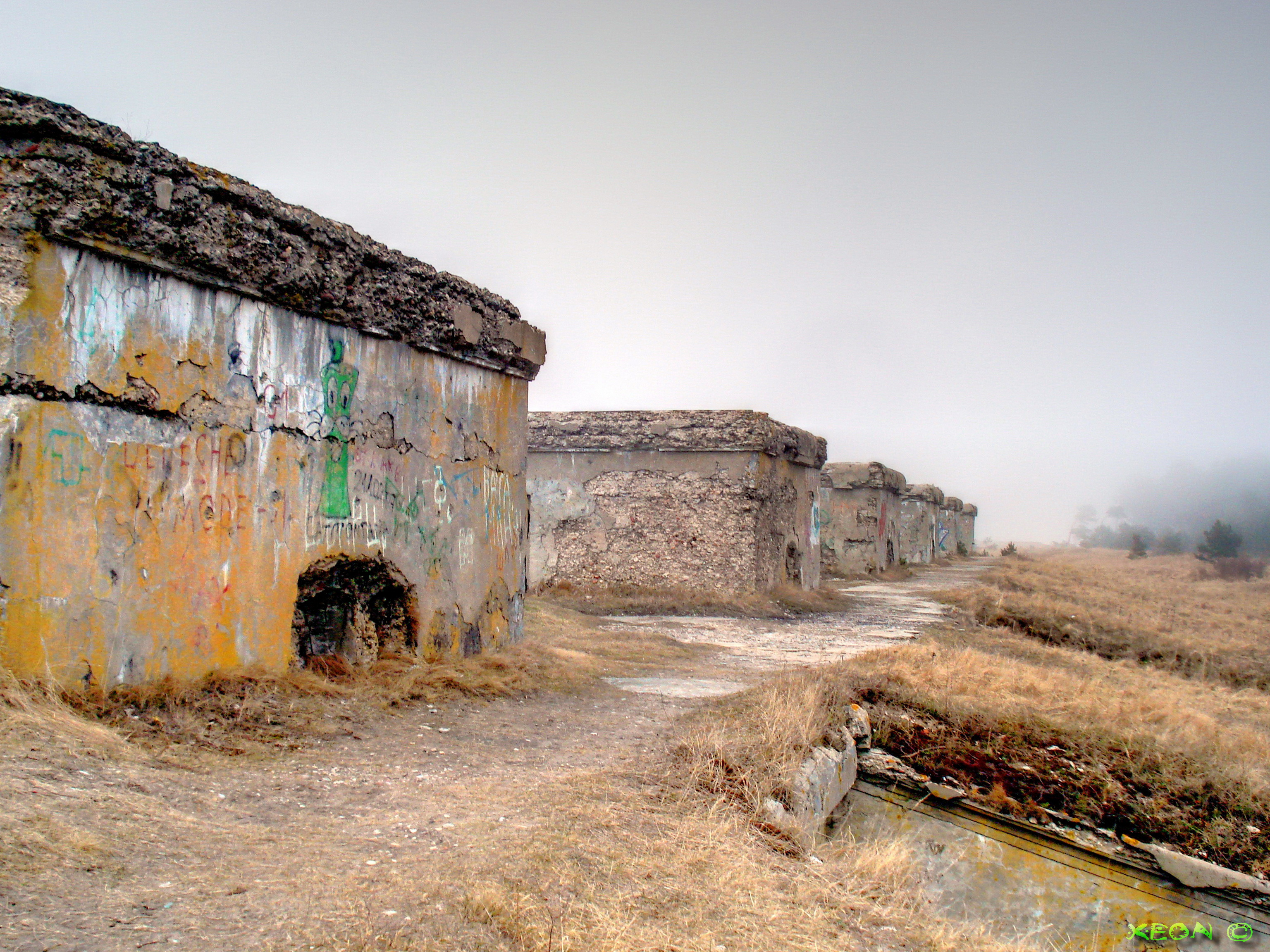 Chess - Foggy Day - Part Of North Libava Liepaja Fort - Battery Number 3 Located In The Coast Of Baltic Sea HDR